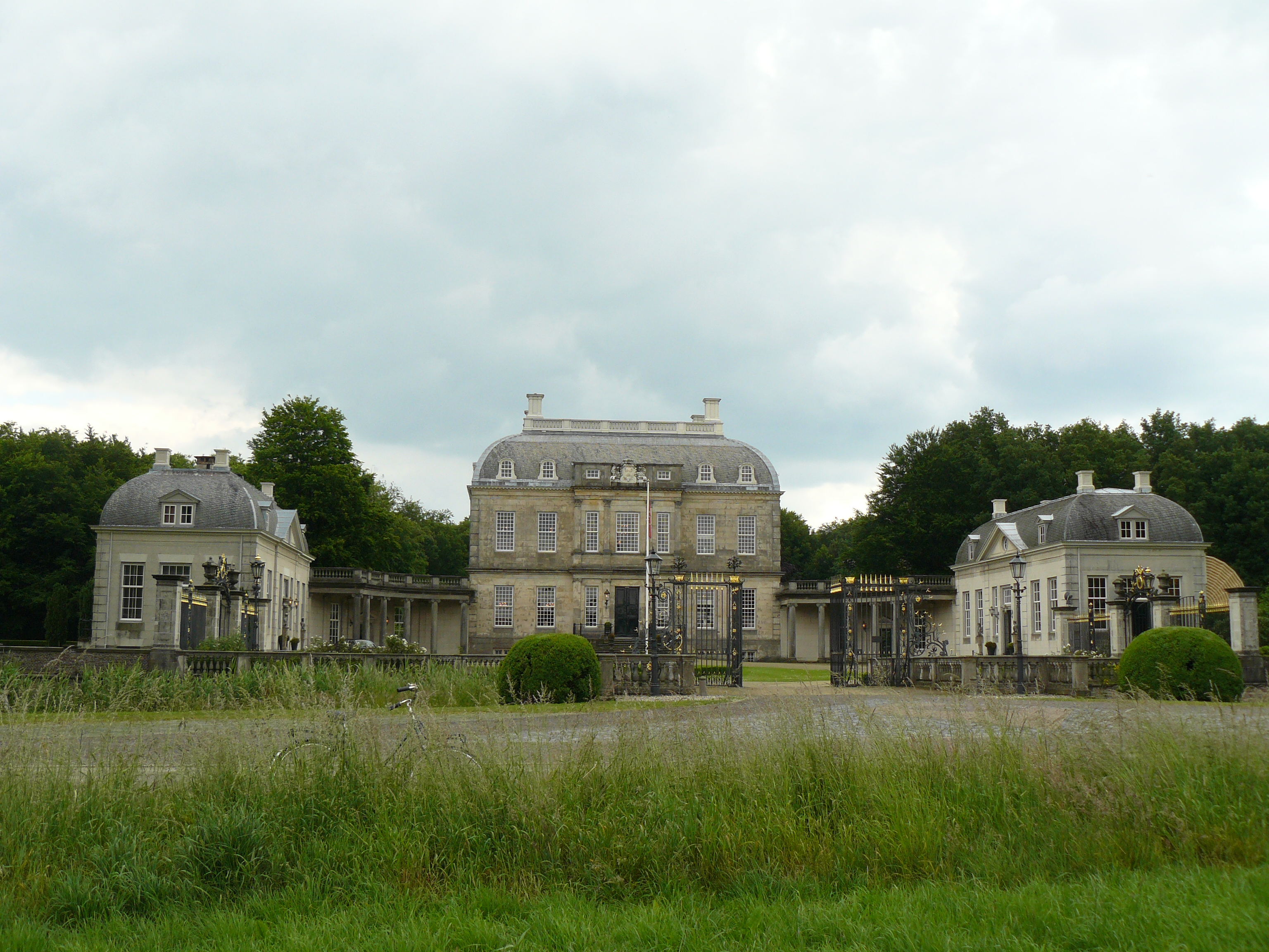 NL-Eefde (Lochem) - Binnenweg 10